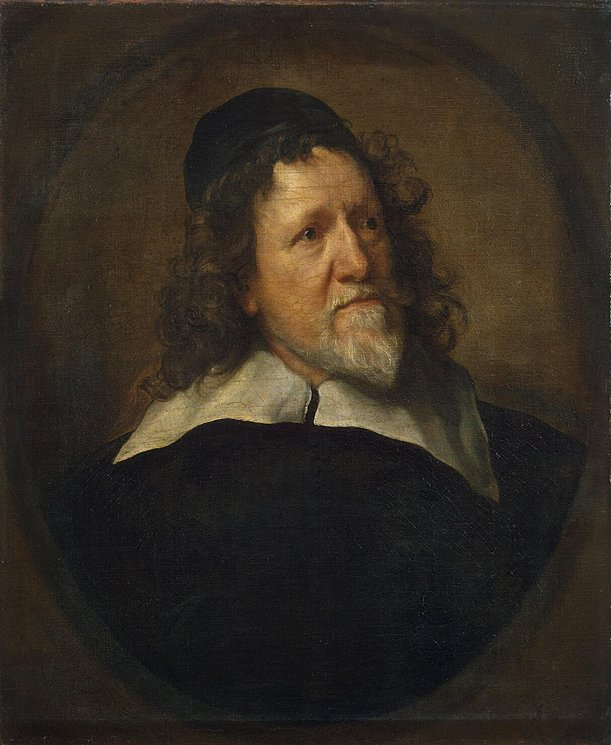 Portrait of Inigo Jones by Anthony van Dyck